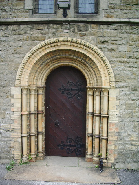 Doorway of St Paul's parish church, Scotforth, Lancaster